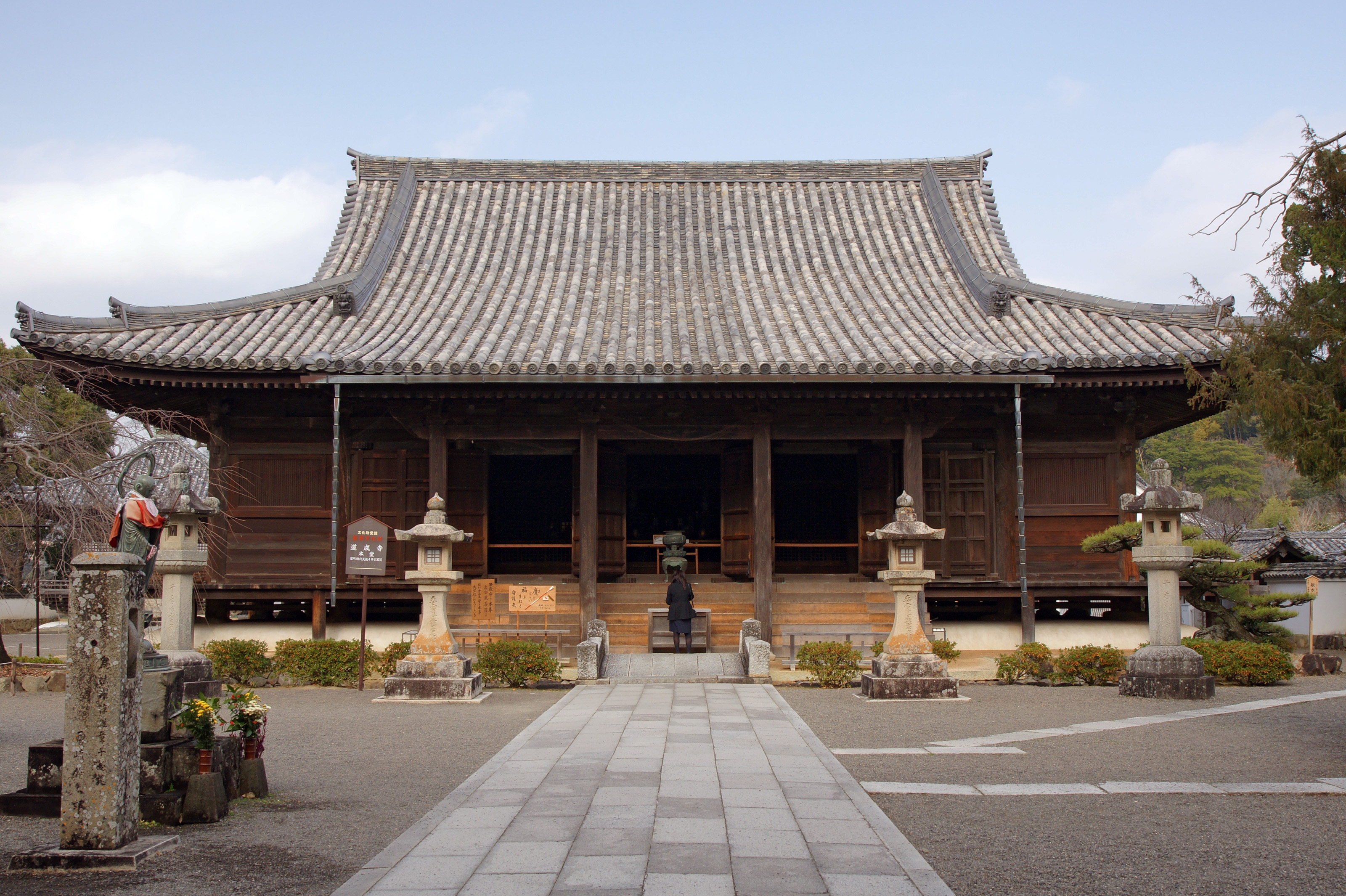 Dojoji, Hidakagawa, Wakayama prefecture, Japan